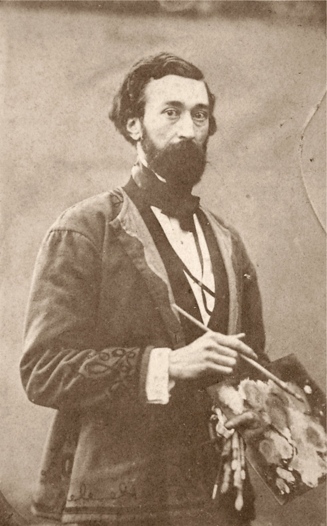 Charles Francois Jalabert, Painter from France